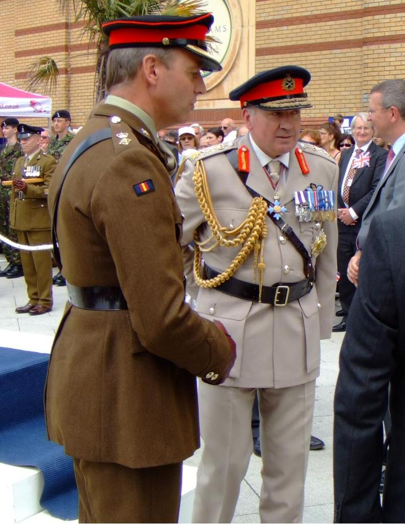 General Sir Richard Dannatt at an Armed Forces Day parade in Southend, Essex, England